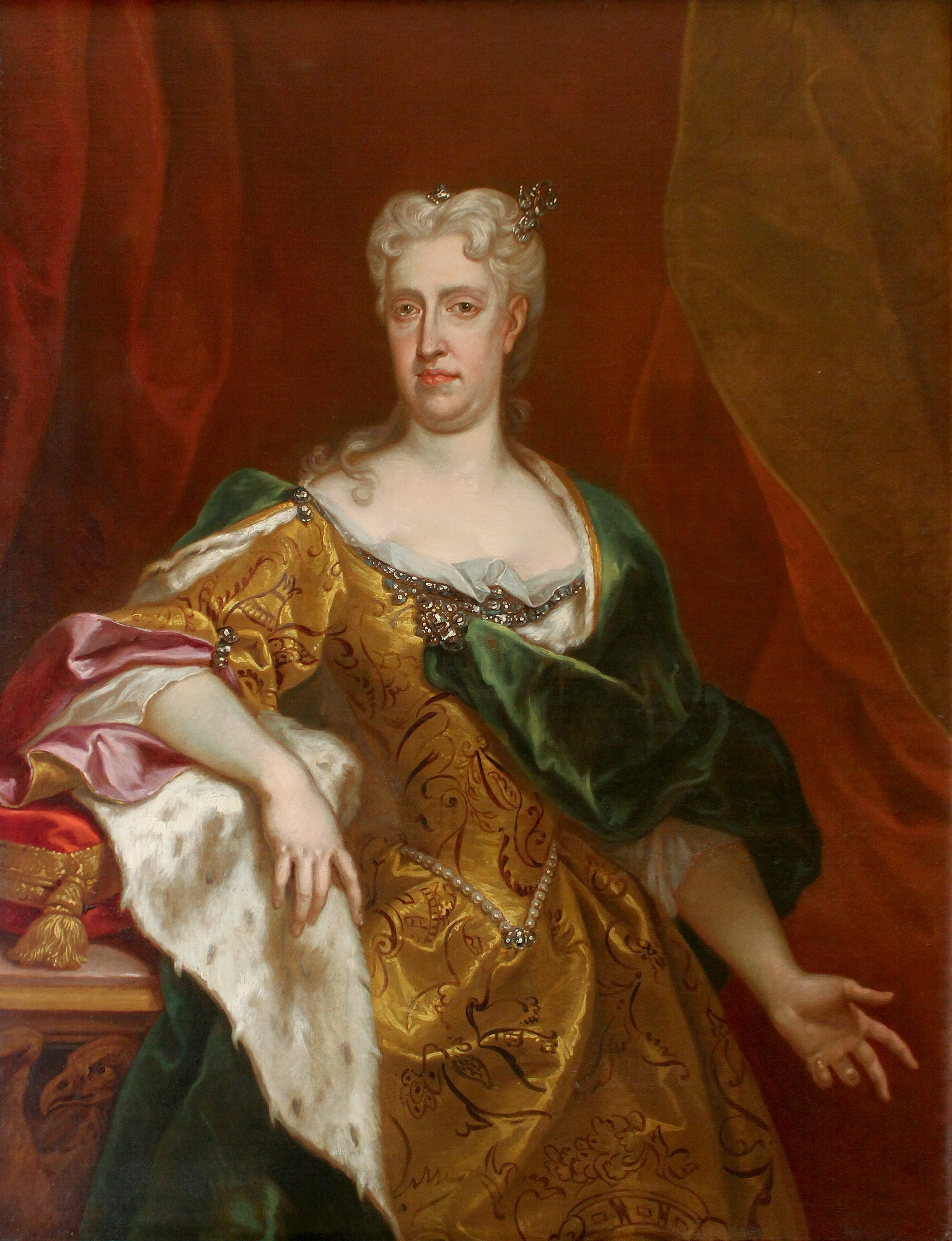 An official portrait of Archduchess Maria Elisabeth of Austria (1680-1741), governor of the Austrian Netherlands, kept in the Town Hall of the City of Brussels